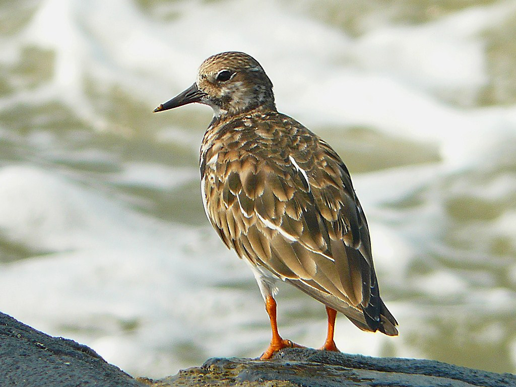 These 23 cm birds have a dark, wedge-shaped bill, long and slightly upturned. Their legs are fairly short and are bright orange. At all seasons, the plumage is dominated by a harlequin-like pattern of black and white.